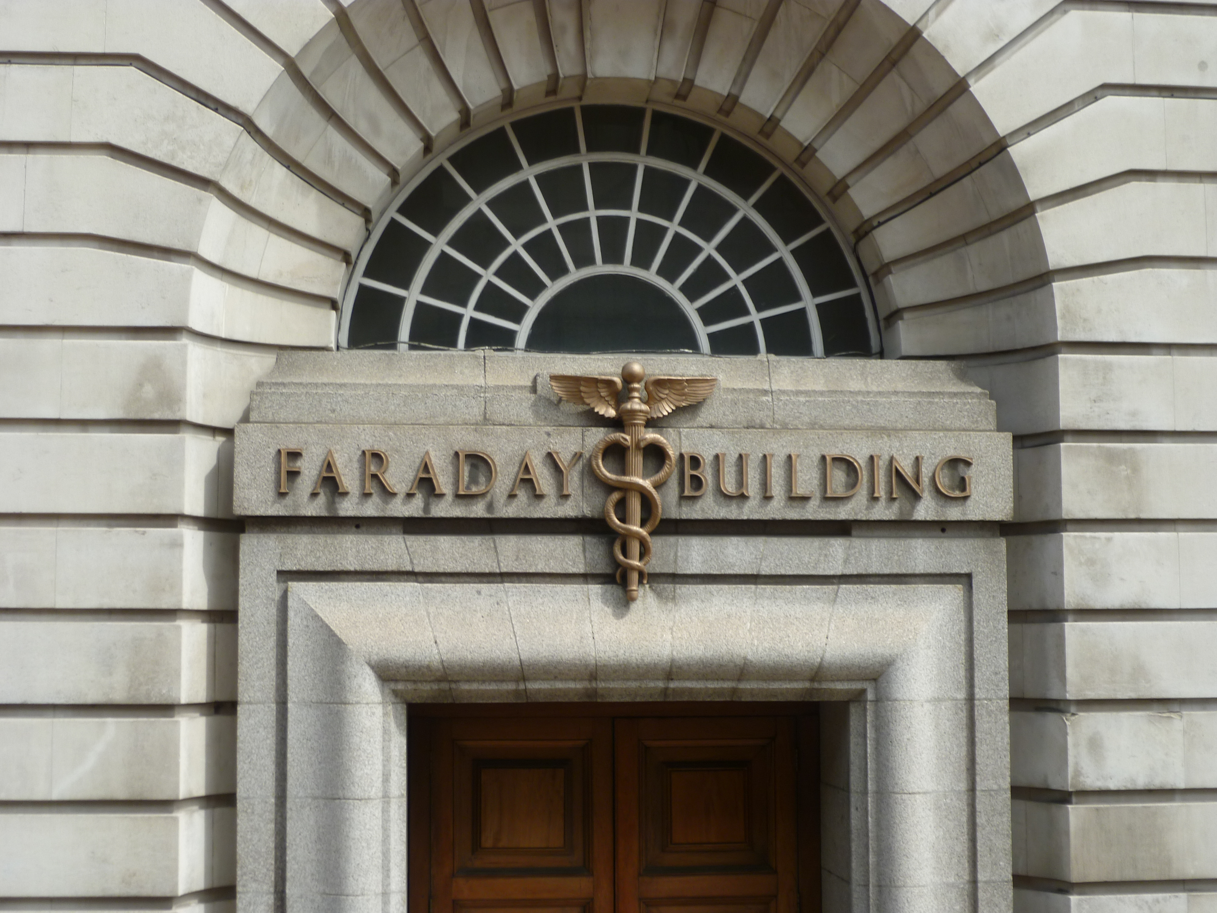 Entrance